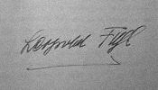 Austrian State Treaty, signatures of the five minsters an cancellor, exhibition 2005 on the Schallaburg Leopold Figl, Foreign Ministry of Austria